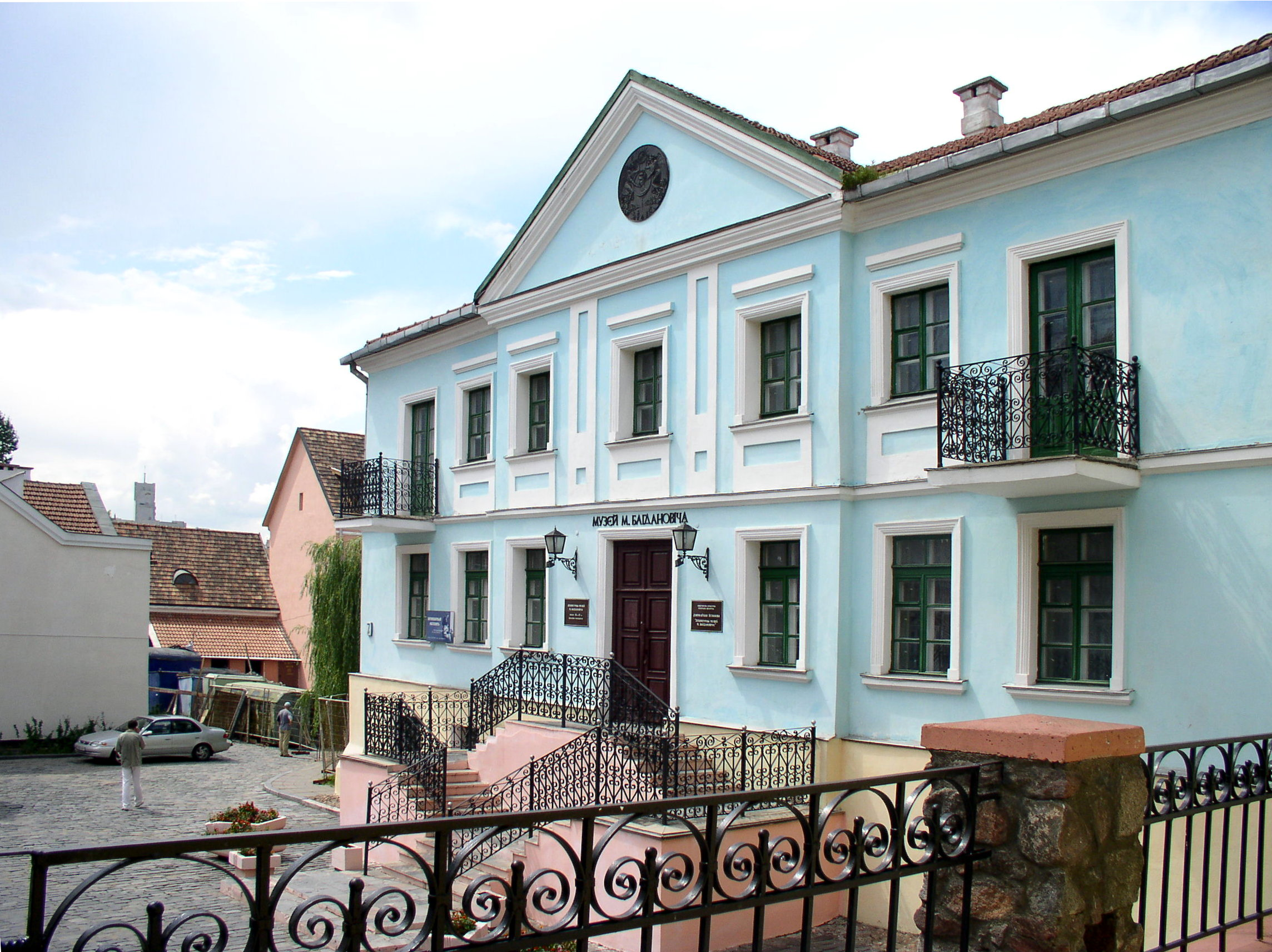 Maksim Bahdanovich’s museum, Traetskaye suburb, Minsk, Belarus.